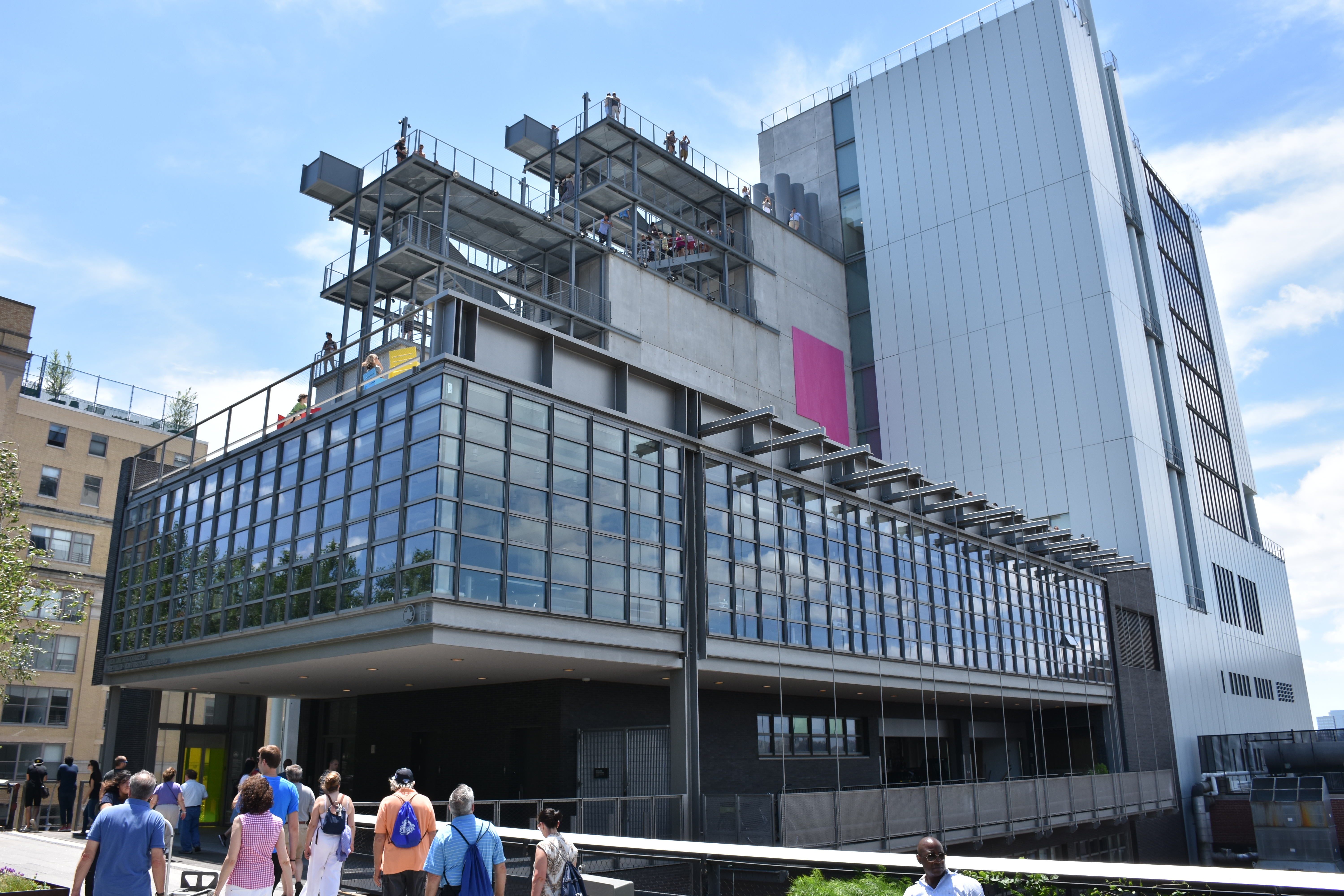 The Whitney Museum of American Art in New York City in June of 2015.